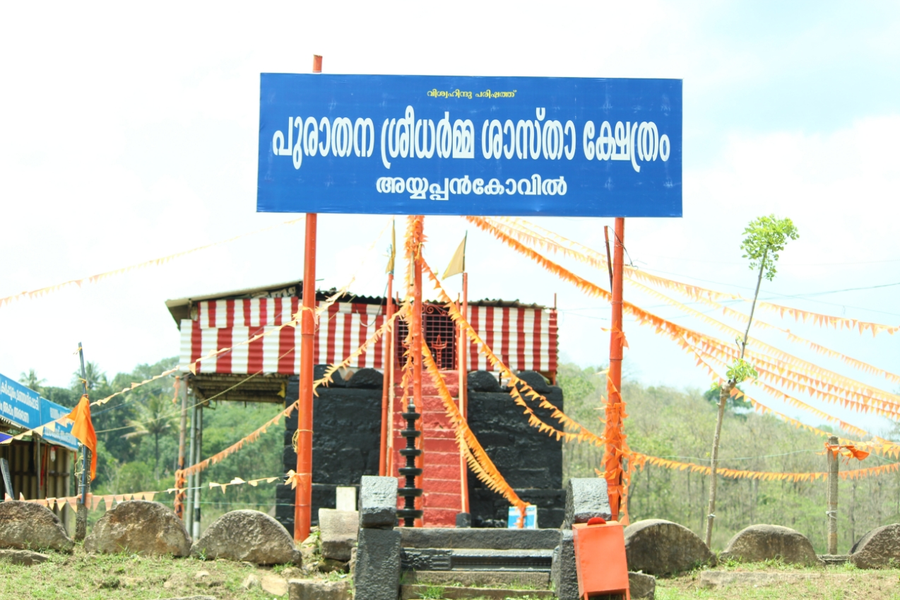 Ayyappankovil Sastha temple front view അയ്യപ്പൻകോവിൽ ശാസ്താ ക്ഷേത്രം